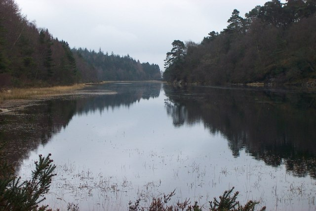 Llyn y Parc. Llyn y Parc taken from the Northwest end of the lake.